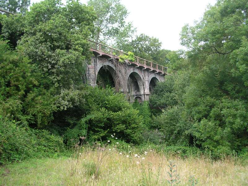 The viaduc de Kerdeoser of the Chemins de Fer des Côtes-du-Nord, a former local railway company. Plouguiel (Britanny, France)